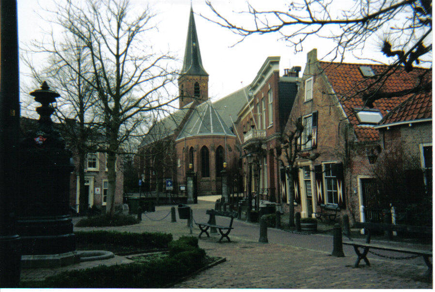 A picture of the Plein (square) in Wassenaar, The Netherlands showing the Dorpskerk